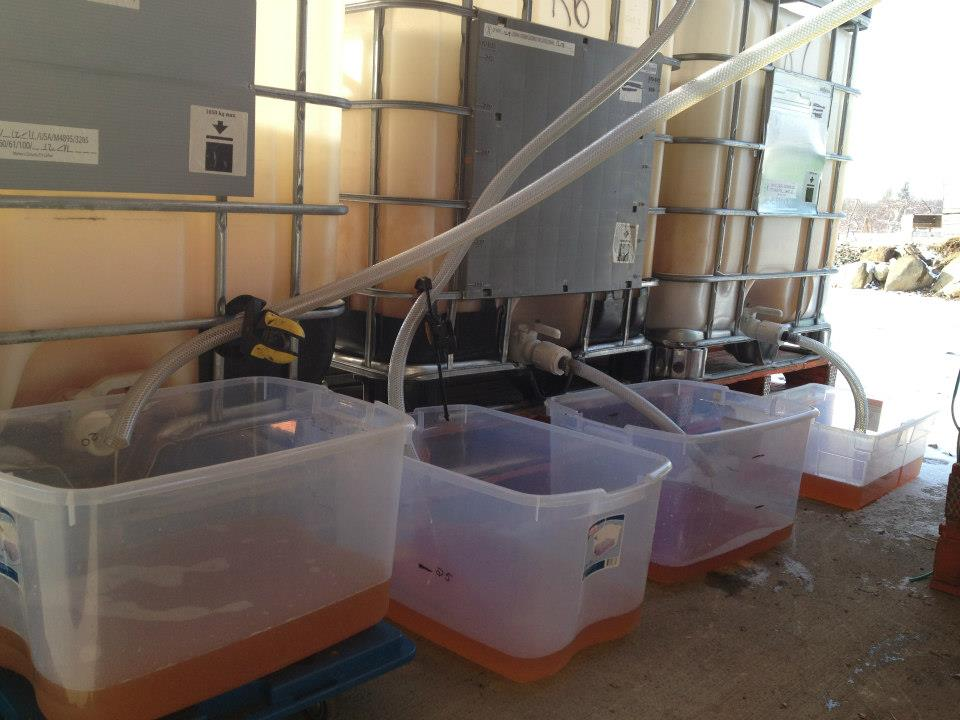 Apple juice being turned into ice cider through cryoconcentration